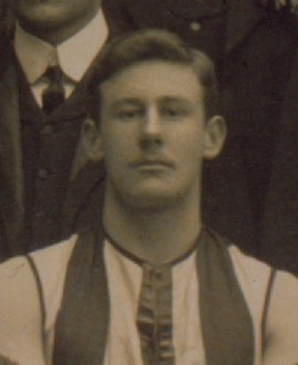 Photograph of Ted Leach in 1902